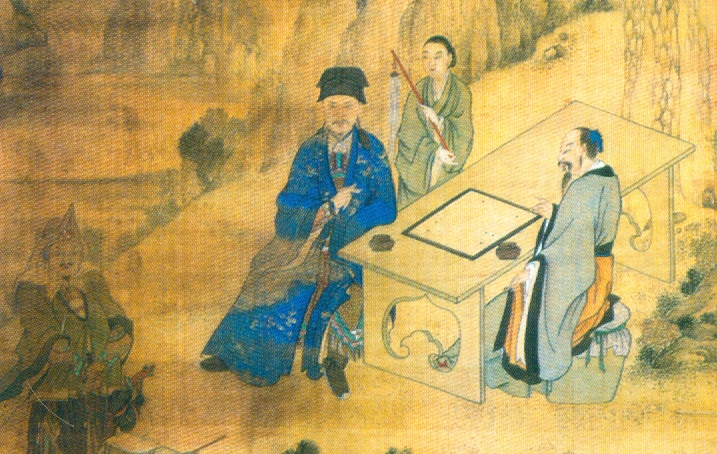 Detail of a portrait of Zheng Chenggong 鄭成功 (1624–1662), who is known in many western sources as "Koxinga." He is the one dressed in a blue robe.